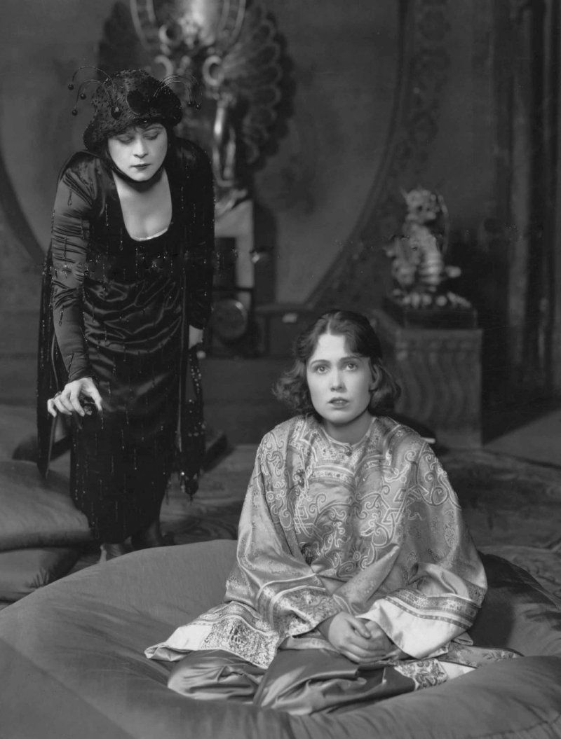 Production photograph from the 1920 A. H. Woods production of The Blue Flame at the Shubert Theatre, New York, NY